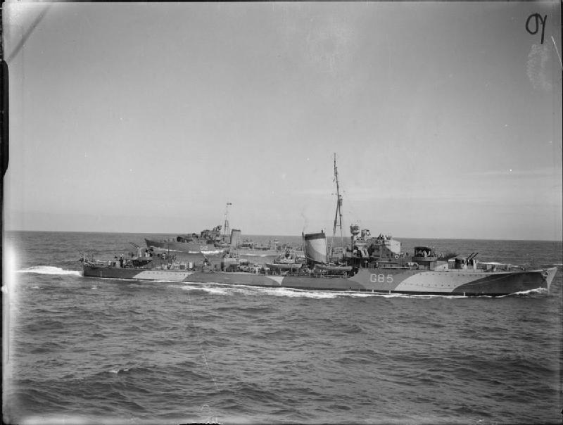 Photograph of British destroyer HMS Jupiter (F85) HMS Kashmir is in the background. Photograph taken from HMS Kelvin.